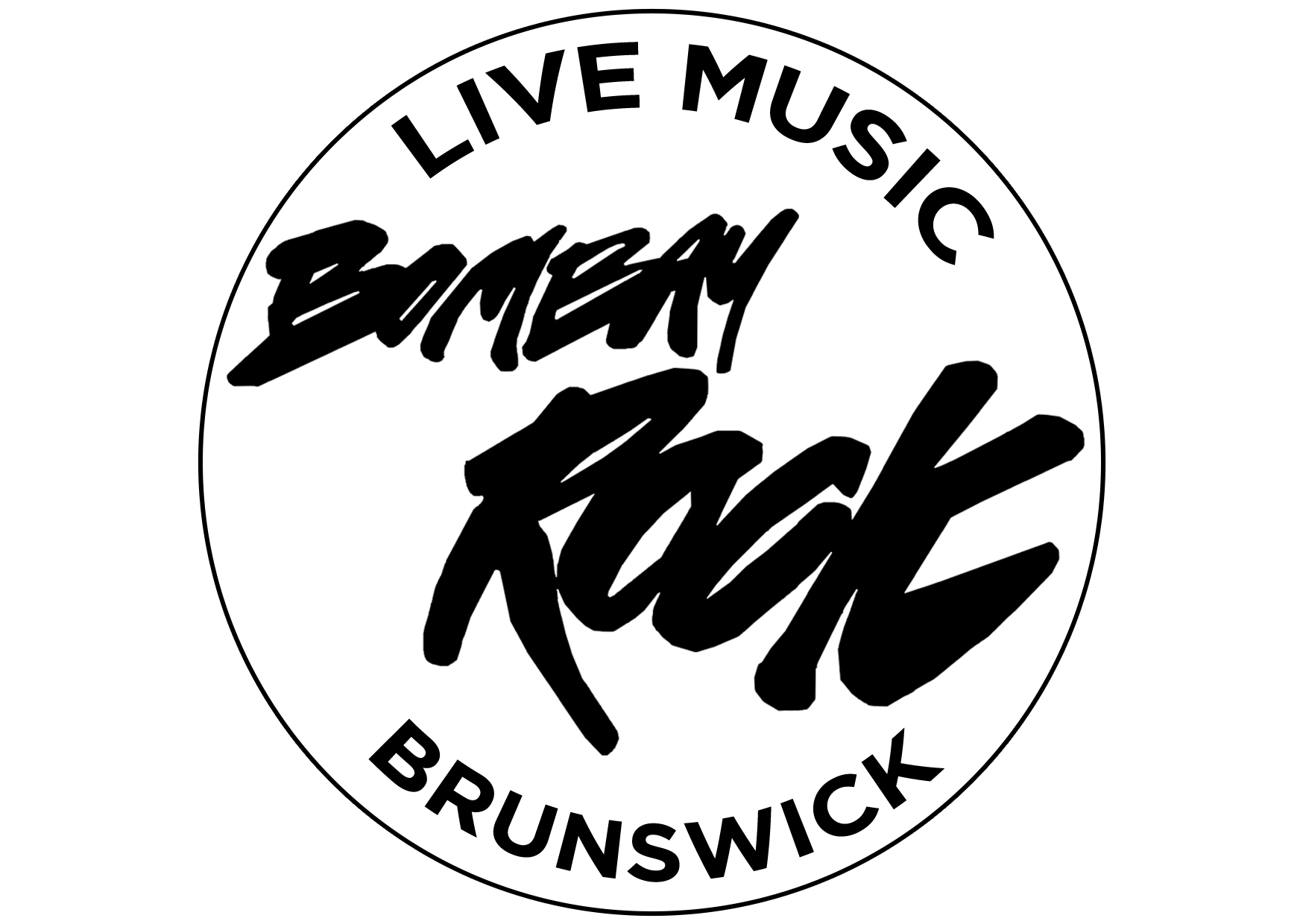 Current logo design for Bombay Rock, Brunswick.